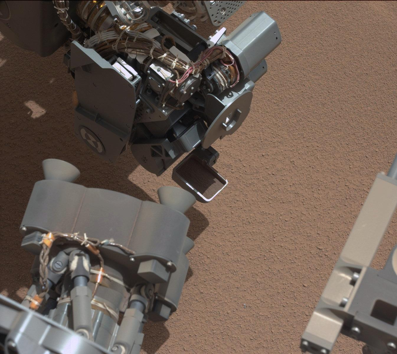 10.08.2012 View of Curiosity's First Scoop Also Shows Bright Object This image from the right Mast Camera (Mastcam) of NASA's Mars rover Curiosity shows a scoop full of sand and dust lifted by the rover's first use of the scoop on its robotic arm. In the foreground, near the bottom of the image, a bright object is visible on the ground. The object might be a piece of rover hardware. This image was taken during the mission's 61st Martian day, or sol (Oct. 7, 2012), the same sol as the first scooping. After examining Sol 61 imaging, the rover team decided to refrain from using the arm on Sol 62 (Oct. 8). Instead, the rover was instructed to acquire additional imaging of the bright object, on Sol 62, to aid the team in assessing possible impact, if any, to sampling activities. For scale, the scoop is 1.8 inches (4.5 centimeters) wide, 2.8 inches (7 centimeters) long. Image Credit: NASA/JPL-Caltech/MSSS